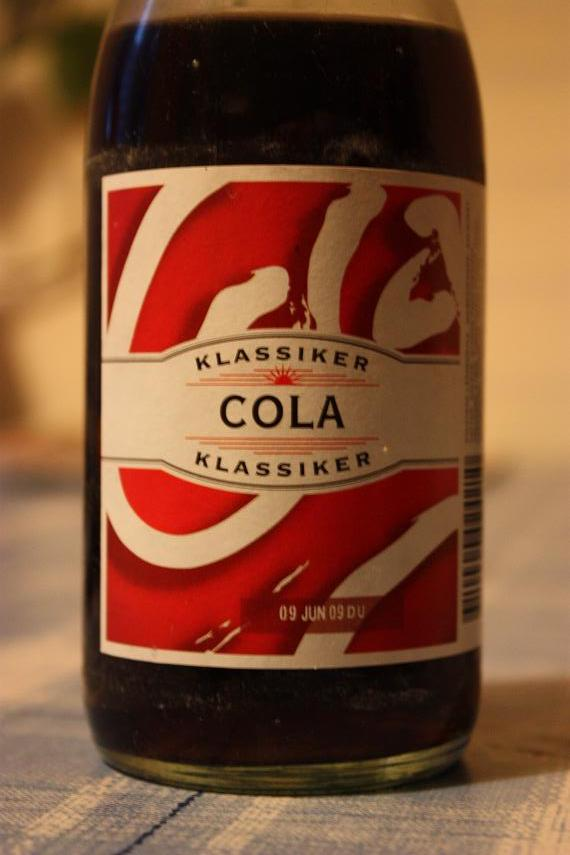 Cola